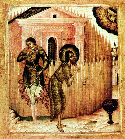 Execution of John the Baptist